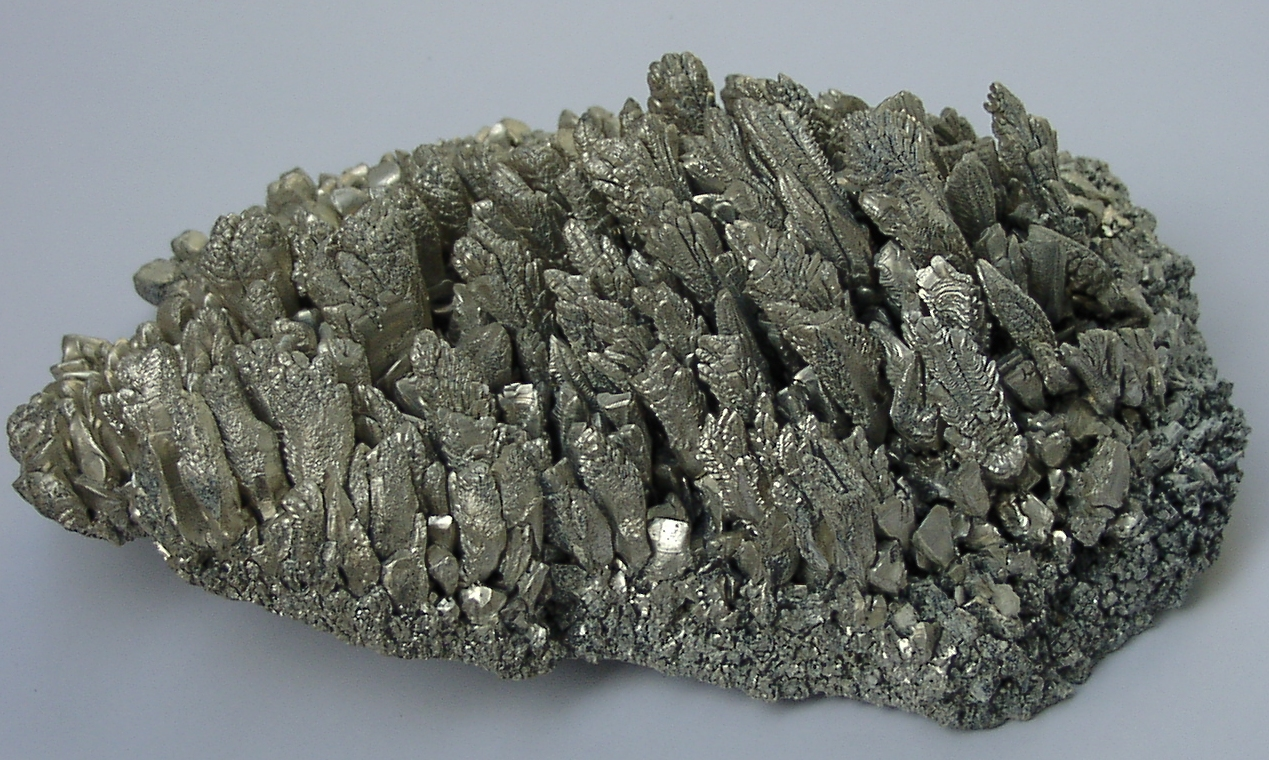 A chunk of vapor-deposited magnesium crystals produced by the Pidgeon process at a refinery in China. Its maximum dimension is about 24 cm long.